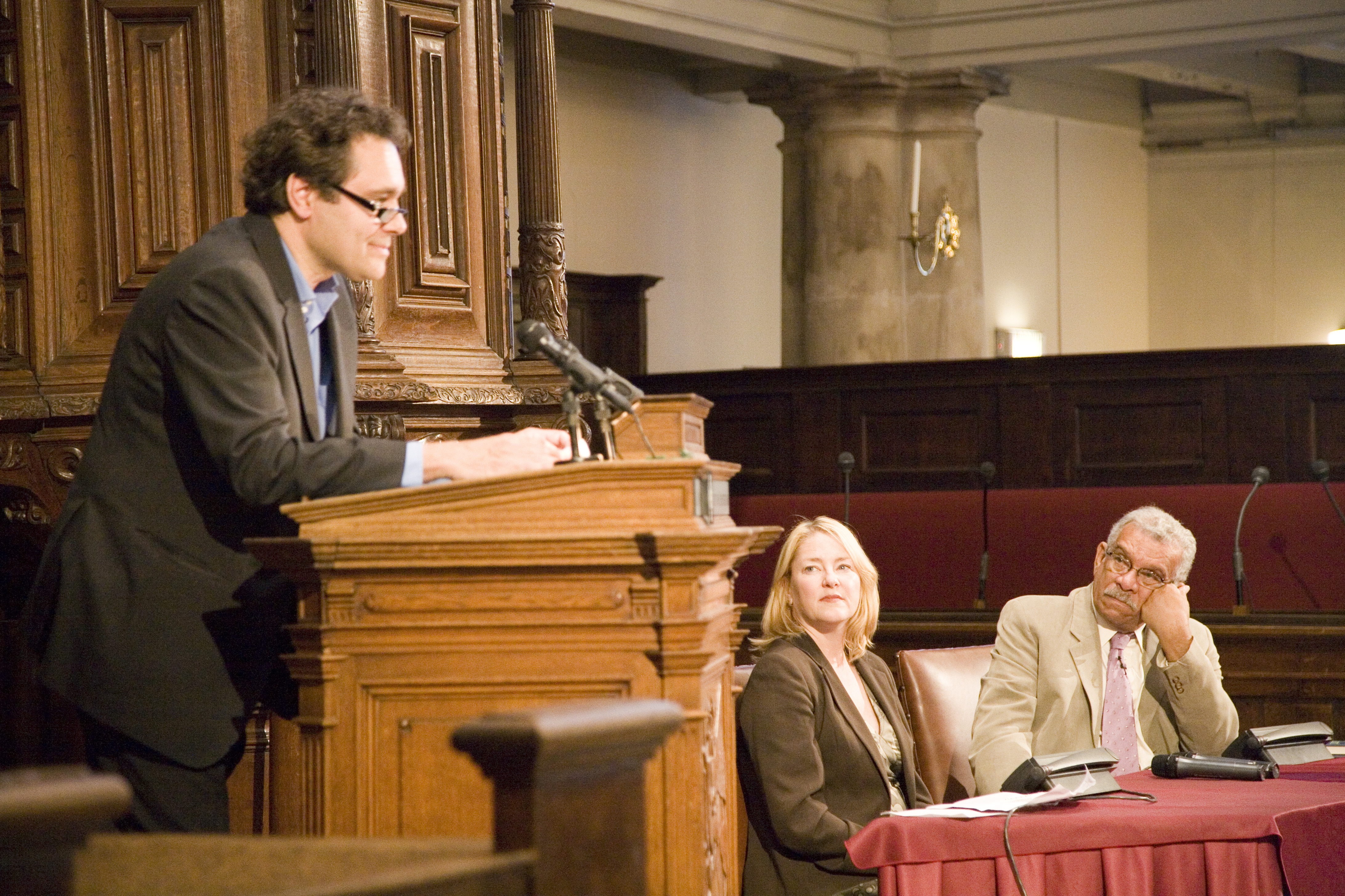 Derek Walcott (right) at the occasion of his first Cola Debrot-lecture in the Aula of the University of Amsterdam, listening to Surinamese-Dutch poet Antoine de Kom (left). In the middle: chair Joyce Goggin.